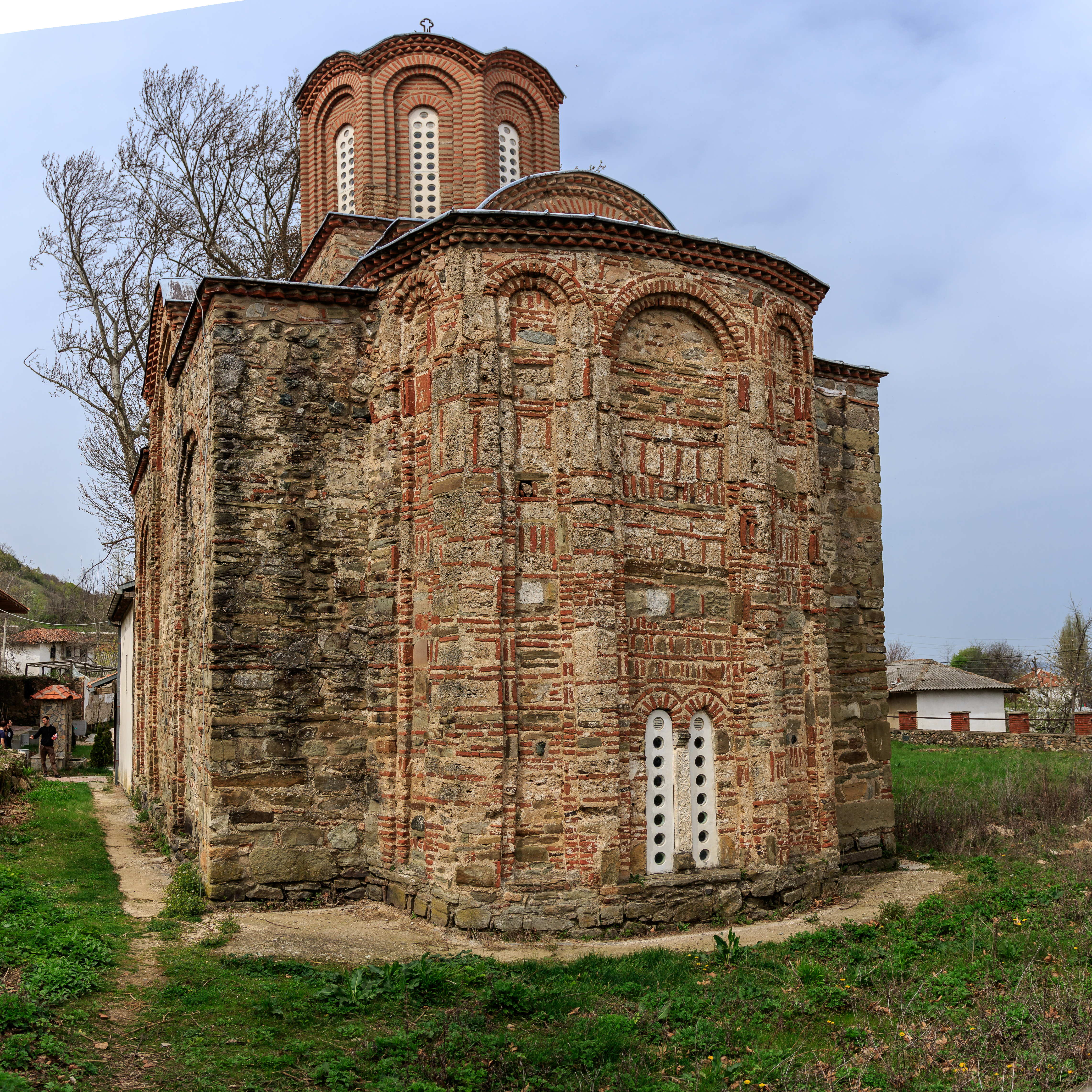 View of St. Stephen's Church in the village Konče